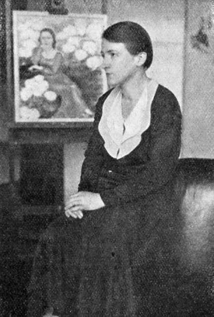 Milada Marešová (1901–1987) was a Czech painter and Illustrator.